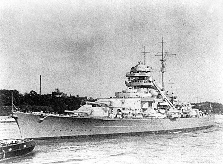 Tirpitz Underway for trials, circa September 1940